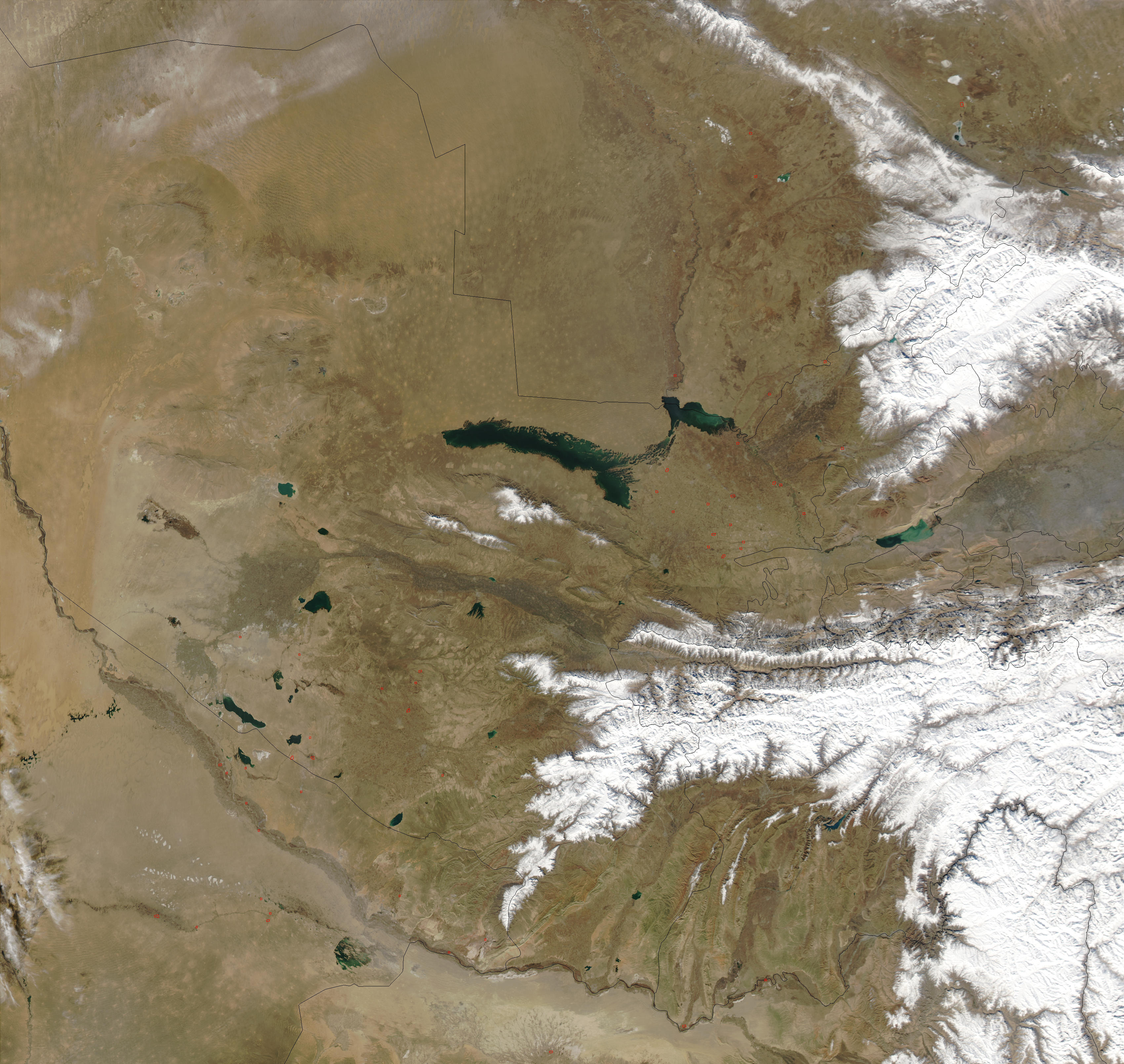 Fires in Western Asia. Small fires are dotted throughout western Asia in this true-color image acquired by the Moderate ResolutionImaging Spectroradiometer (MODIS) on the Aqua satellite. The fires are marked in red, and are concentrated mostly in two areas -south of the Ozero Aydarkul’ and Chardarinskoye Vodokliranilischelakes in eastern Uzbekistan (upper right quadrant) and along the eastern Uzbekistan-Kazakhstan border (lower left quadrant). The mountains in the eastern and southern edges of the image are covered in snow and stand out in marked contrast against the light browns and greens of the rest of the region.